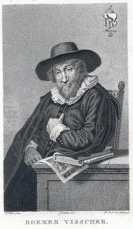 Roemer Visscher at the age of 71.